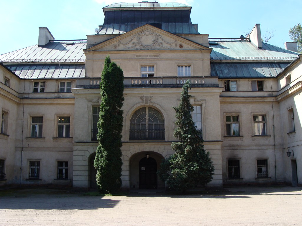 Turew, palace of Chłapowski.